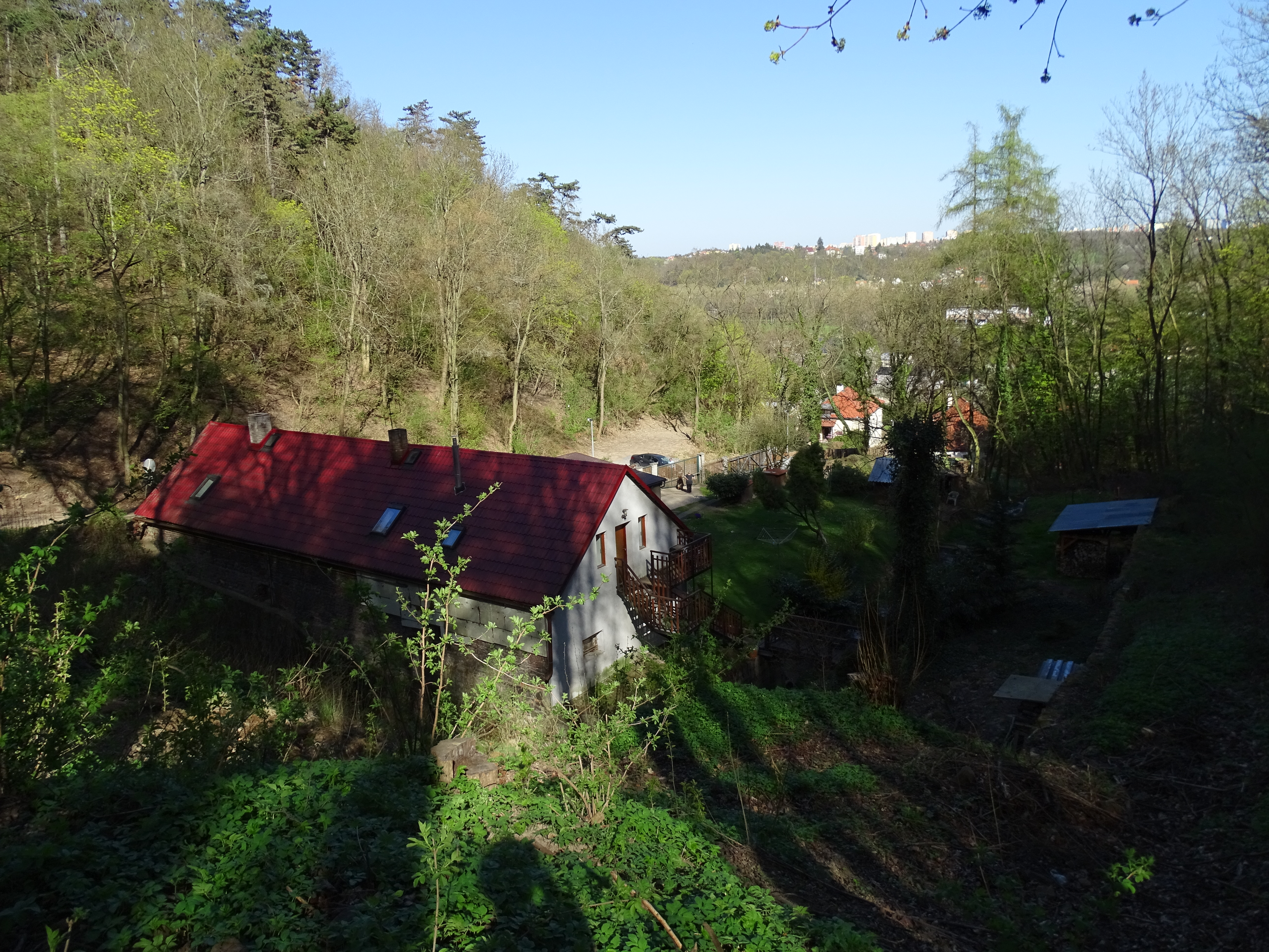 Prague-Malá Chuchle, Czech Republic. V lázních 5/9.